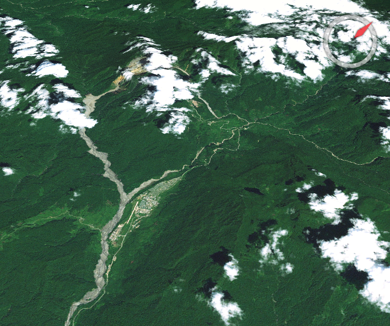 NASA World Wind image of Tabubil, looking NW towards Ok Tedi Mine